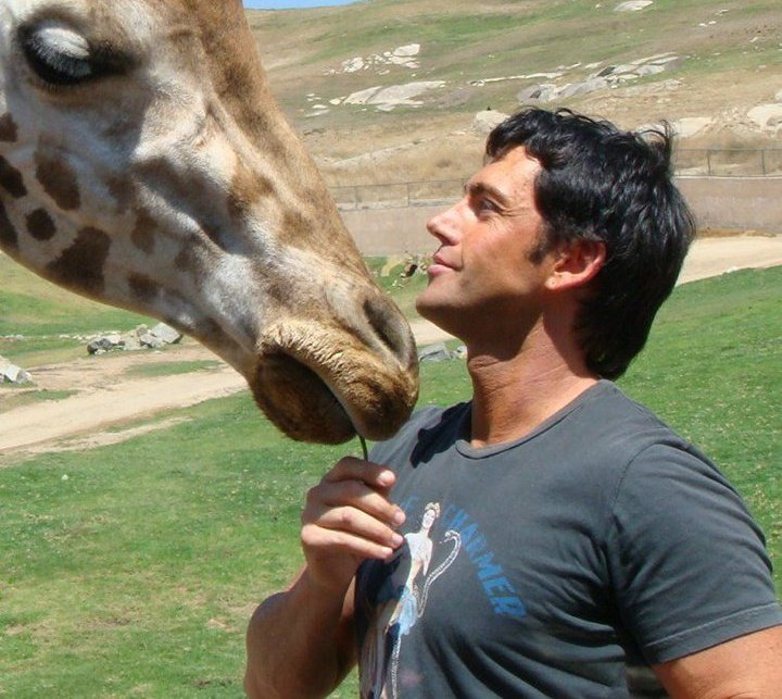 Zack Heart as Outback Zack talks to a giraffe after checking his teeth.